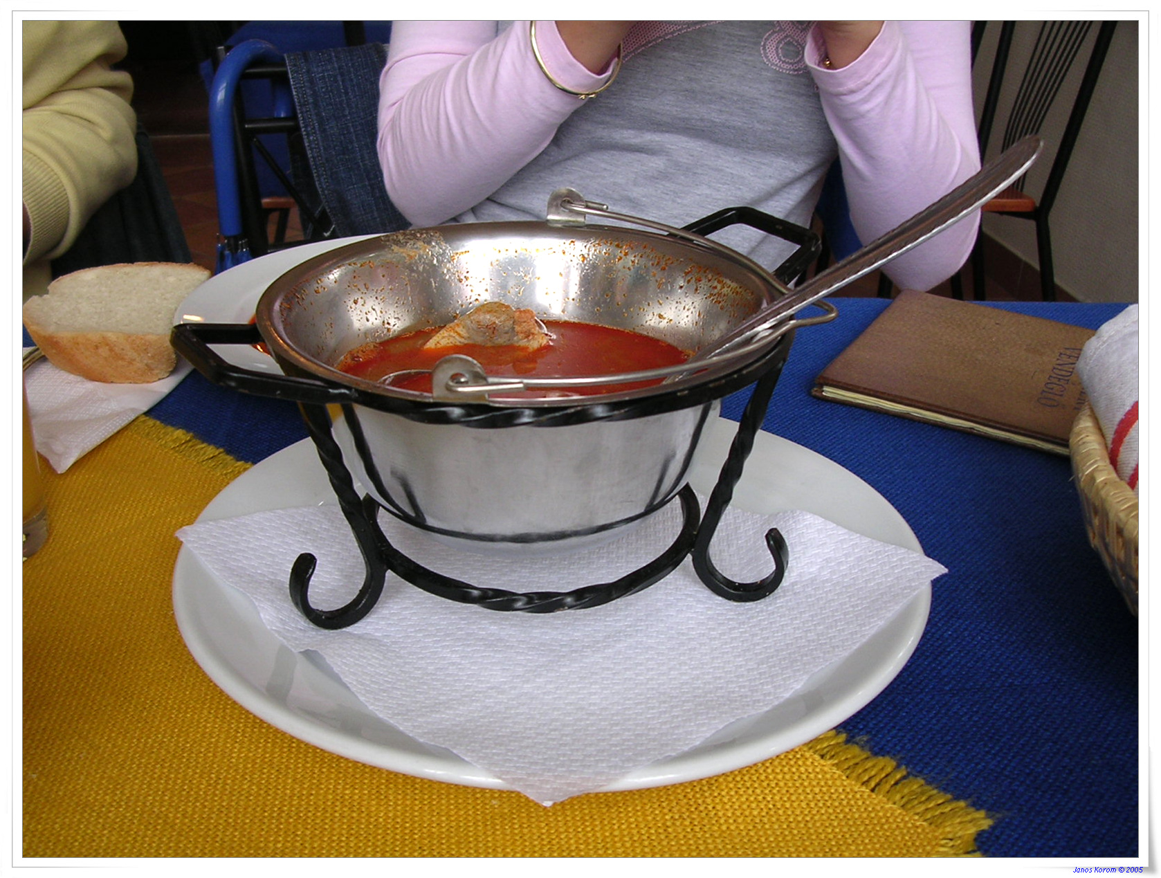 Hungarian fish soup, served near Lake Balaton